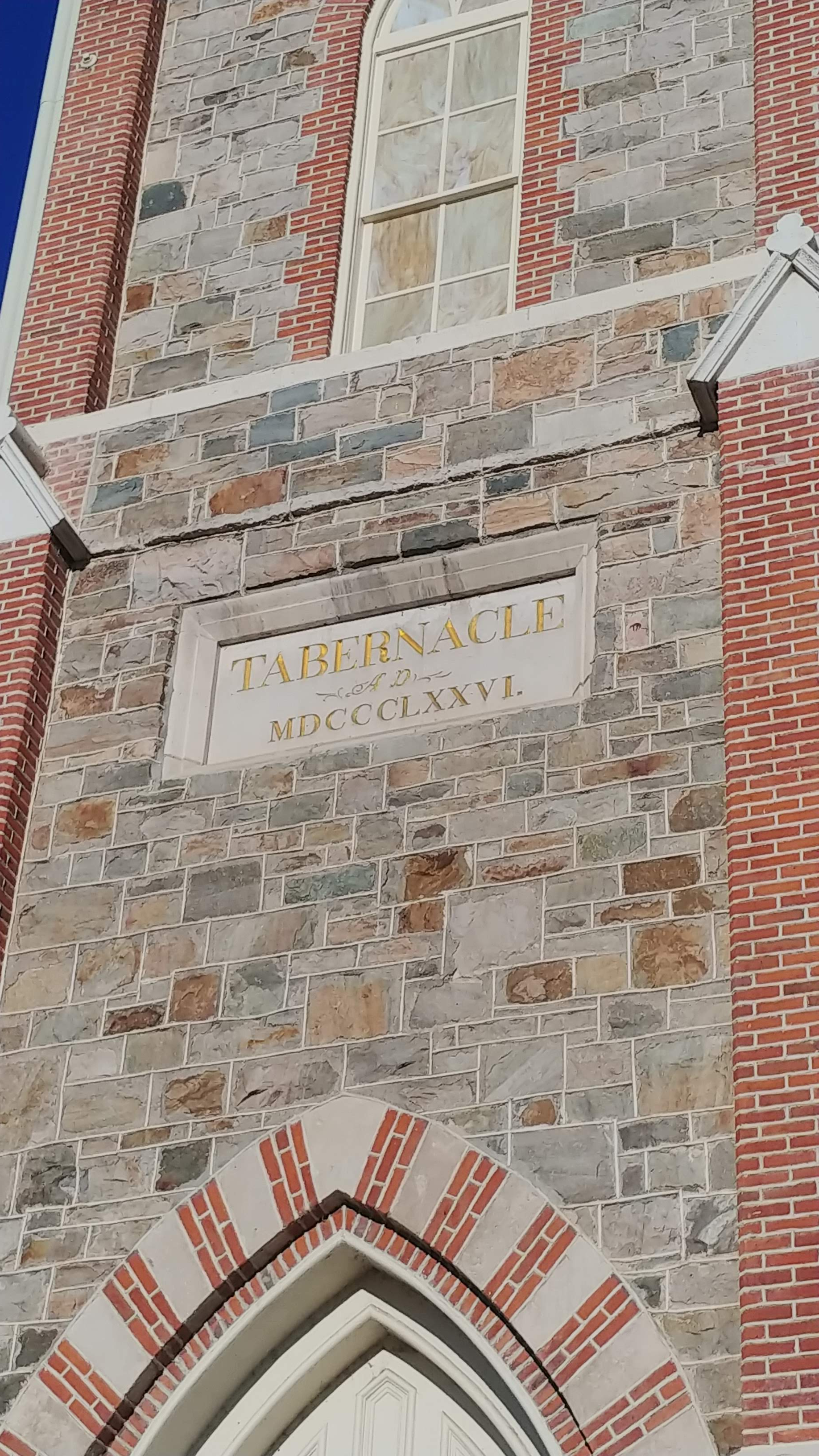 Dates on the front of the building